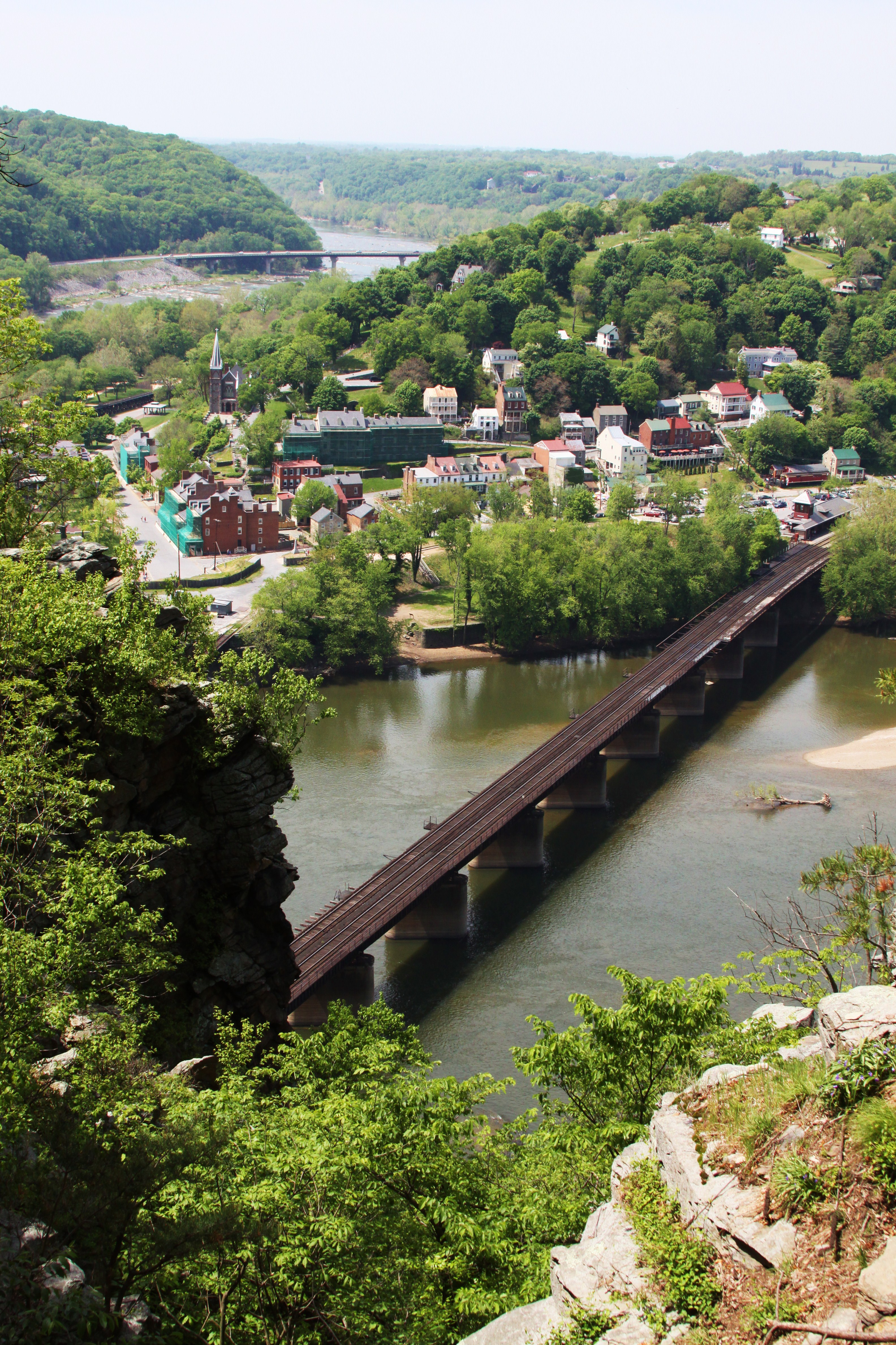 Harpers Ferry, West Virginia, USA. This is a view of the historic town from Maryland Heights.